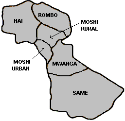 Created by Andrew Coe